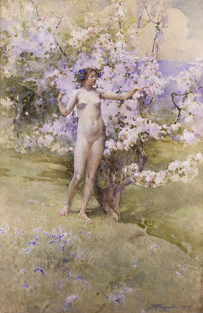 Depiction of a maiden examining the blossoms on a small cherry tree in a meadow. Watercolour, 21 x 14 1/4".